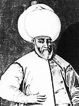 Lala Mustpaha Pasha Ottoman Vizier